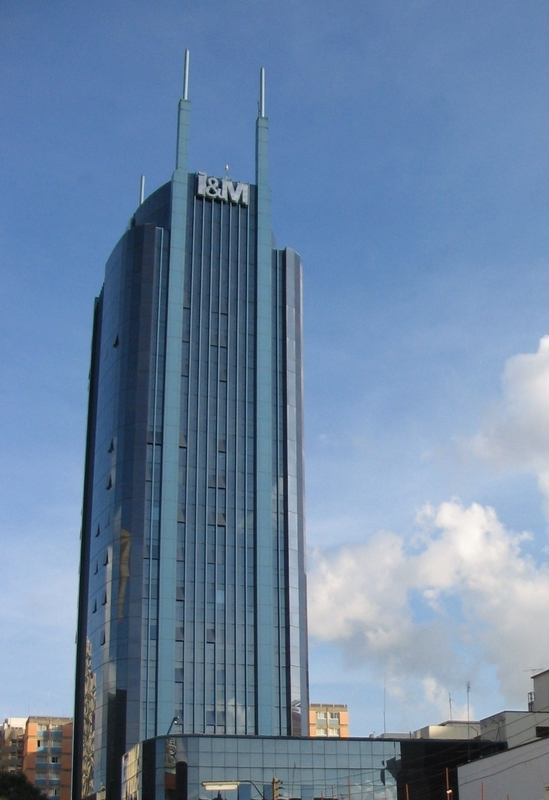 I&M Bank Tower in Nairobi, Kenya